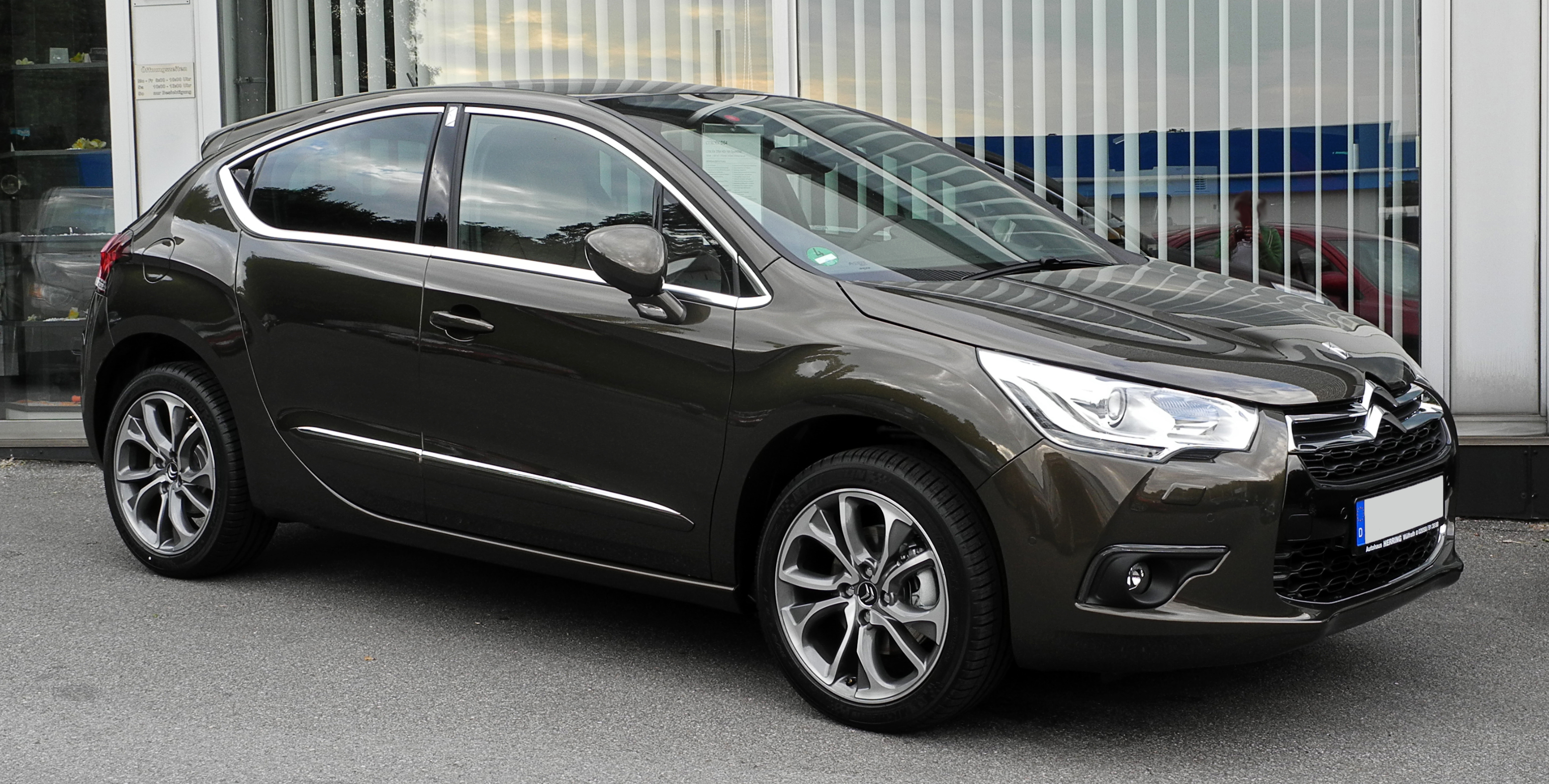 Citroën DS4 HDi 165 SportChic